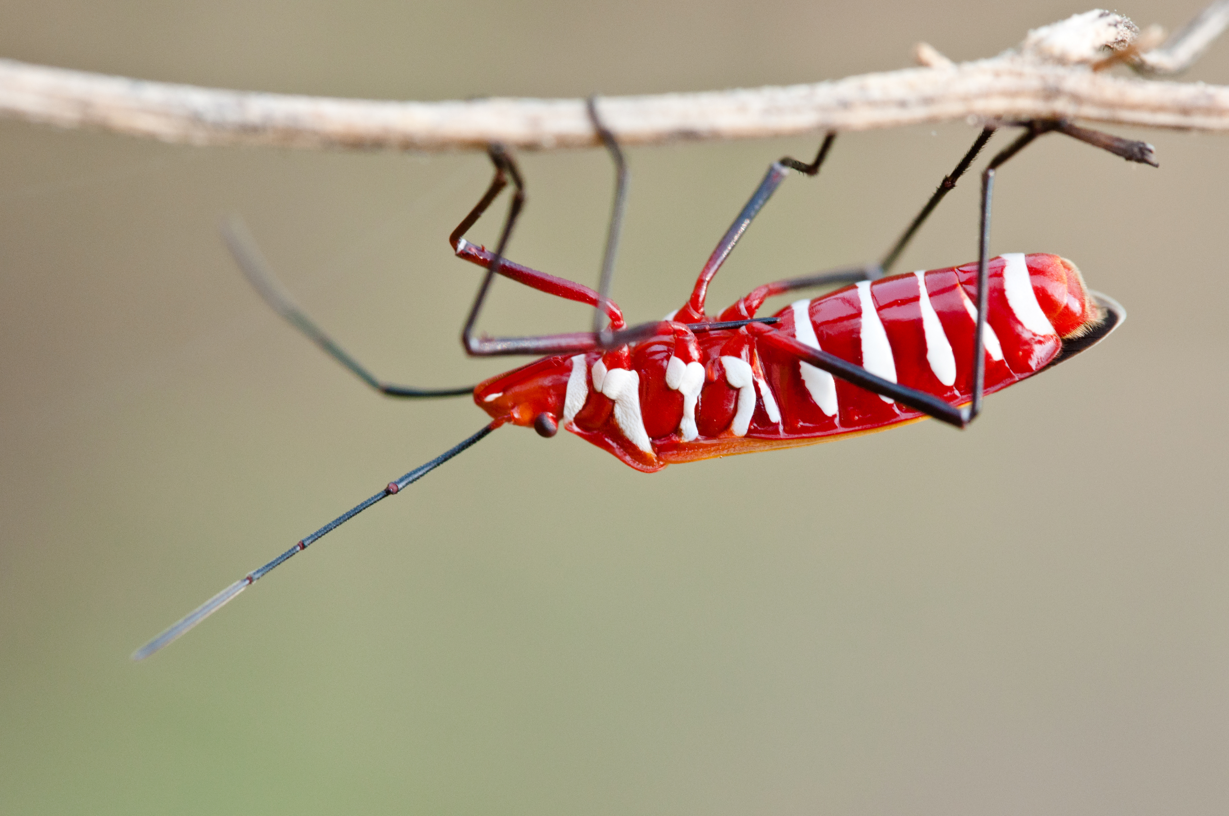 Dysdercus Cingulatus-Fabricius, Red cotton stainer bug - Kaeng Krachan National Park. Photo by Rushenb